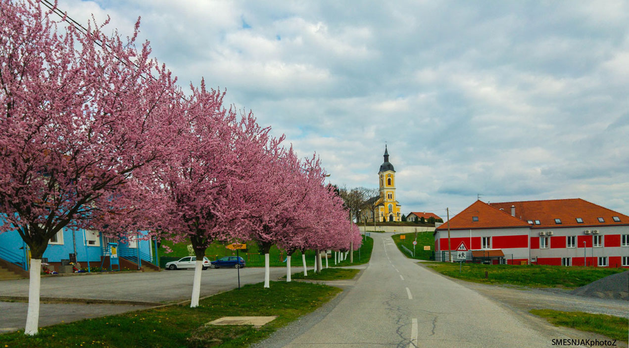 Church of the Visitation of the Blessed Virgin Mary